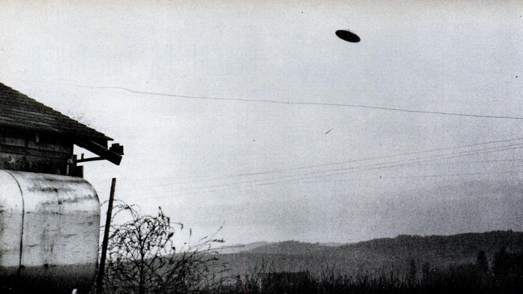 Alleged UFO photograph taken by Paul Trent. Suspected of being a hoax by skeptics.